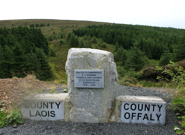 The Fanning Pass Also known as the Glendine Gap, this marks the border between Counties Laois and Offaly. James Fanning, commemorated here, devoted much of his life to the Slieve Bloom Mountains. Their highest point, Arderin (526m), is the rounded hill behind the monument.